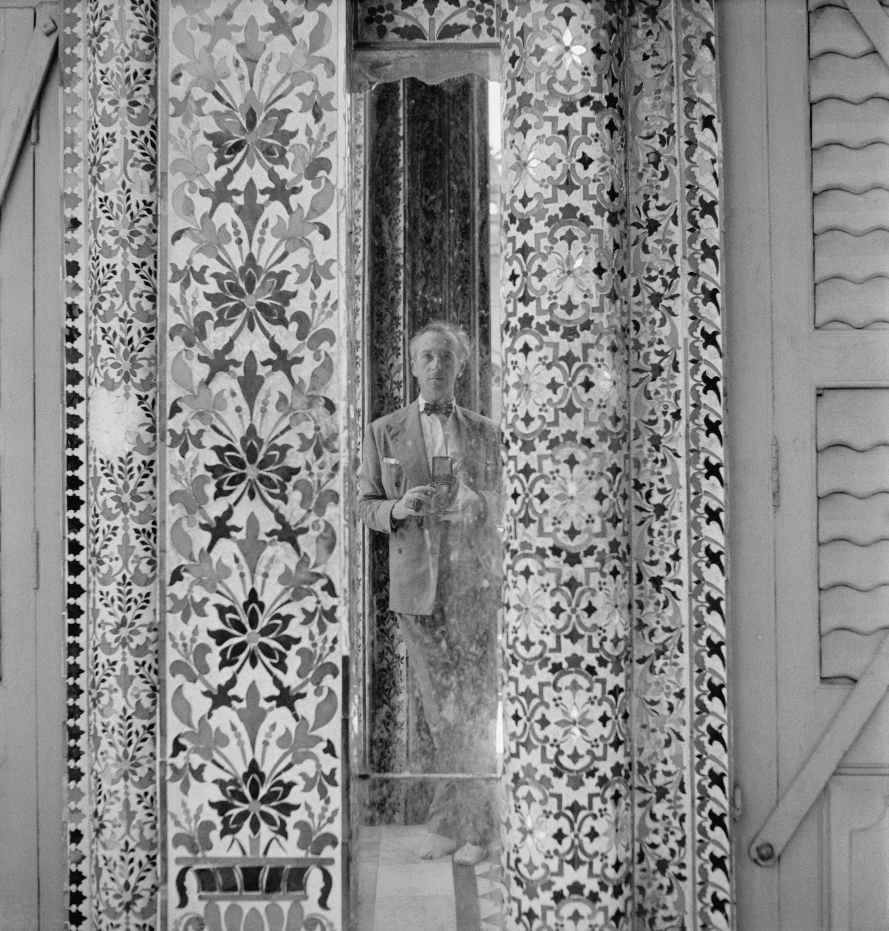 Cecil Beaton Photographs- General Cecil Beaton self portraits: Cecil Beaton (in civilian suit) and his Rolleiflex reflected in a mirror of the Jain temple, Calcutta, India.